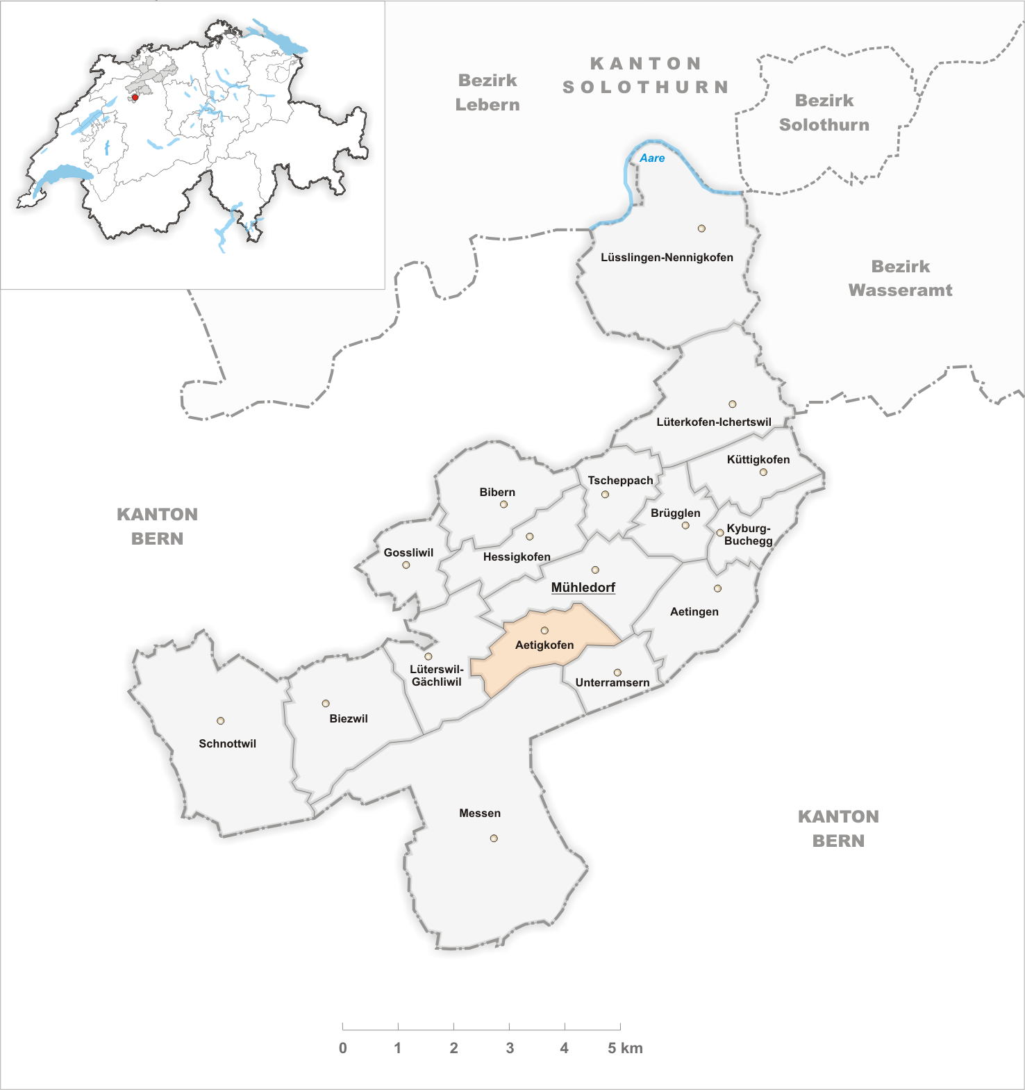 Municipality Aetigkofen